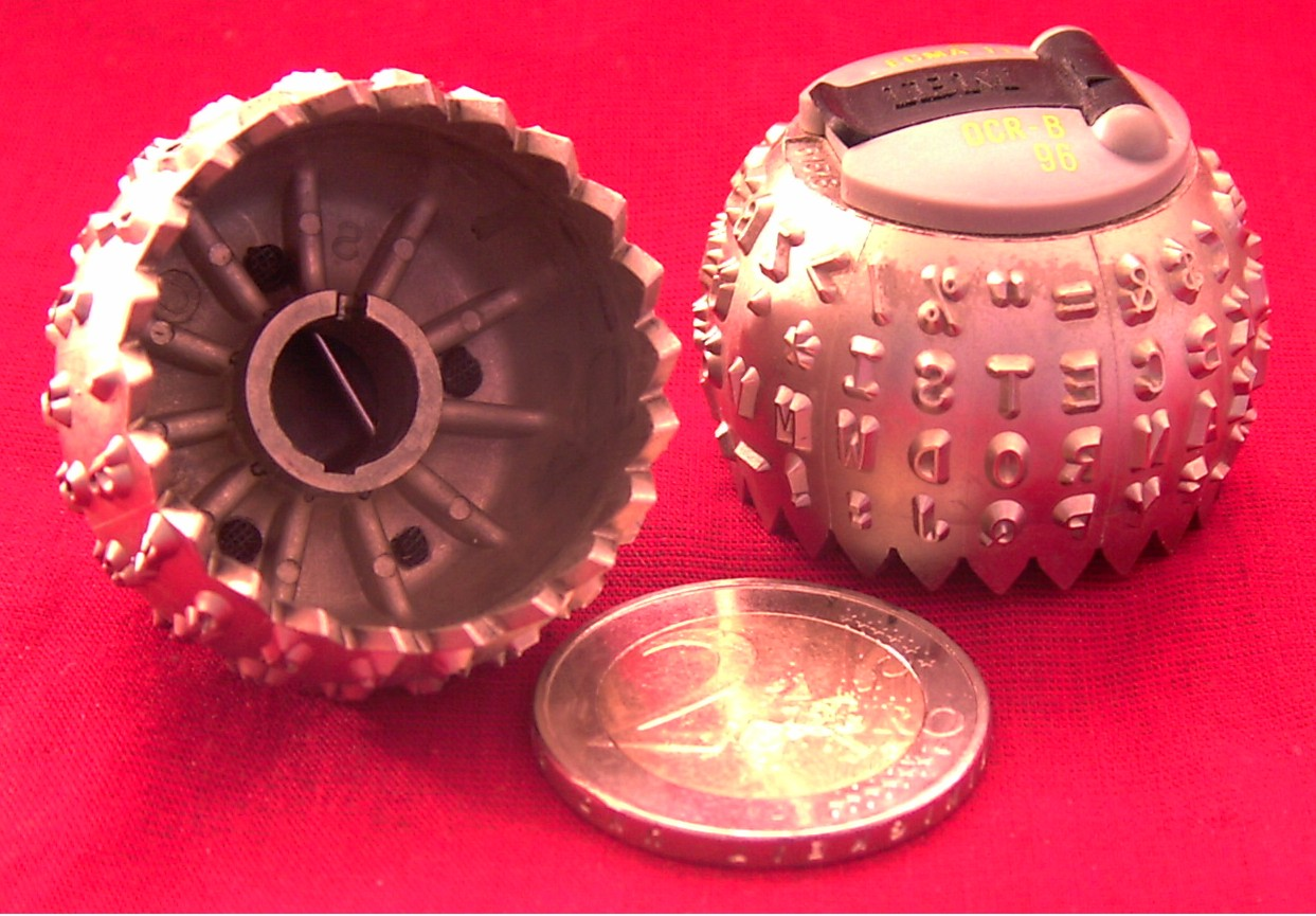 IBM Selectric globe samples (plus two Euro coin to compare size)